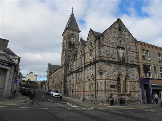 Town Hall, Cross Street, Larne. Looking north from Upper Main Street